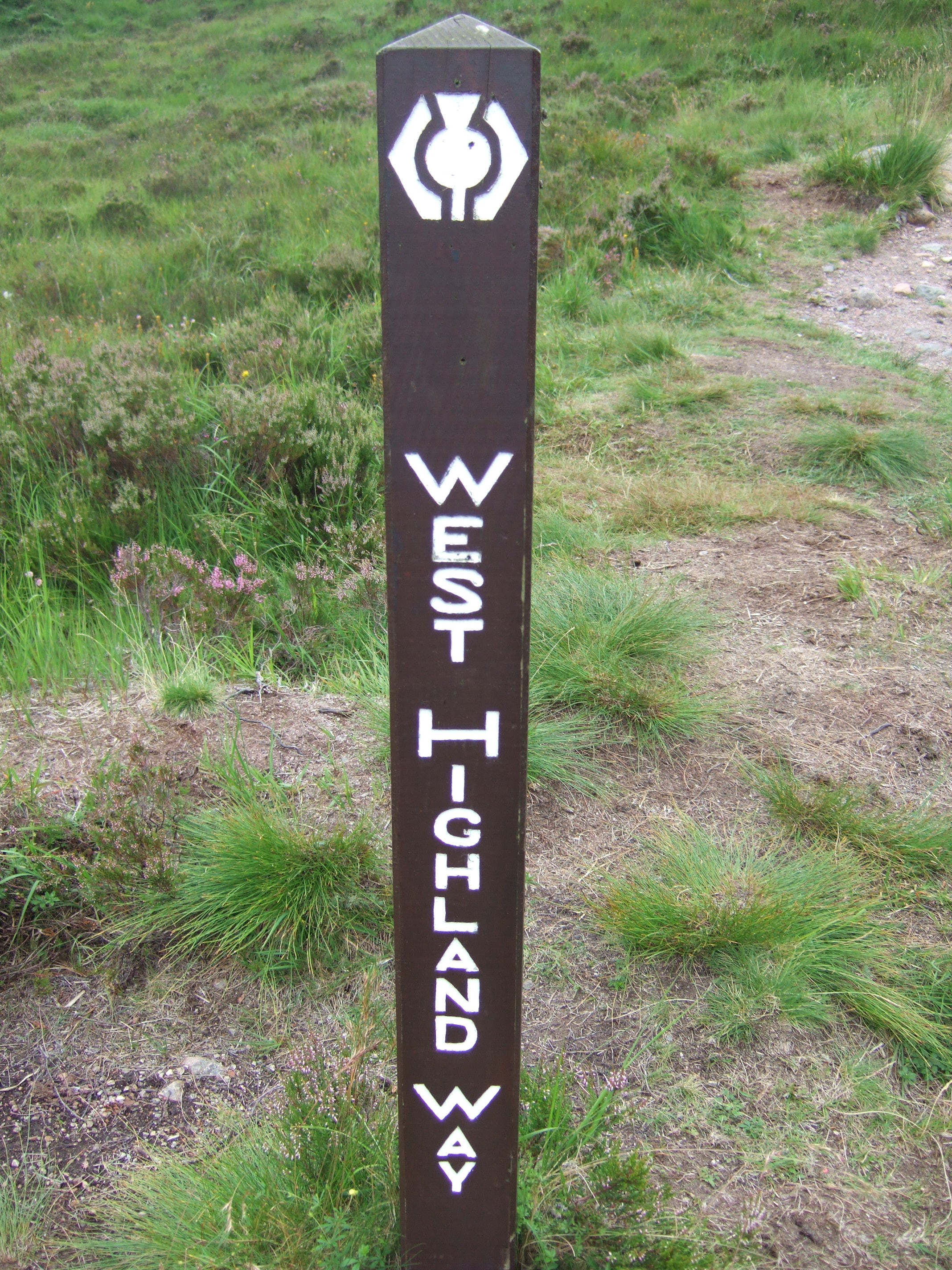 West Highland Way signpost